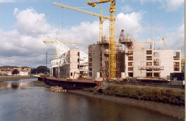 Cardiff Millennium Stadium under construction, Cardiff, Wales